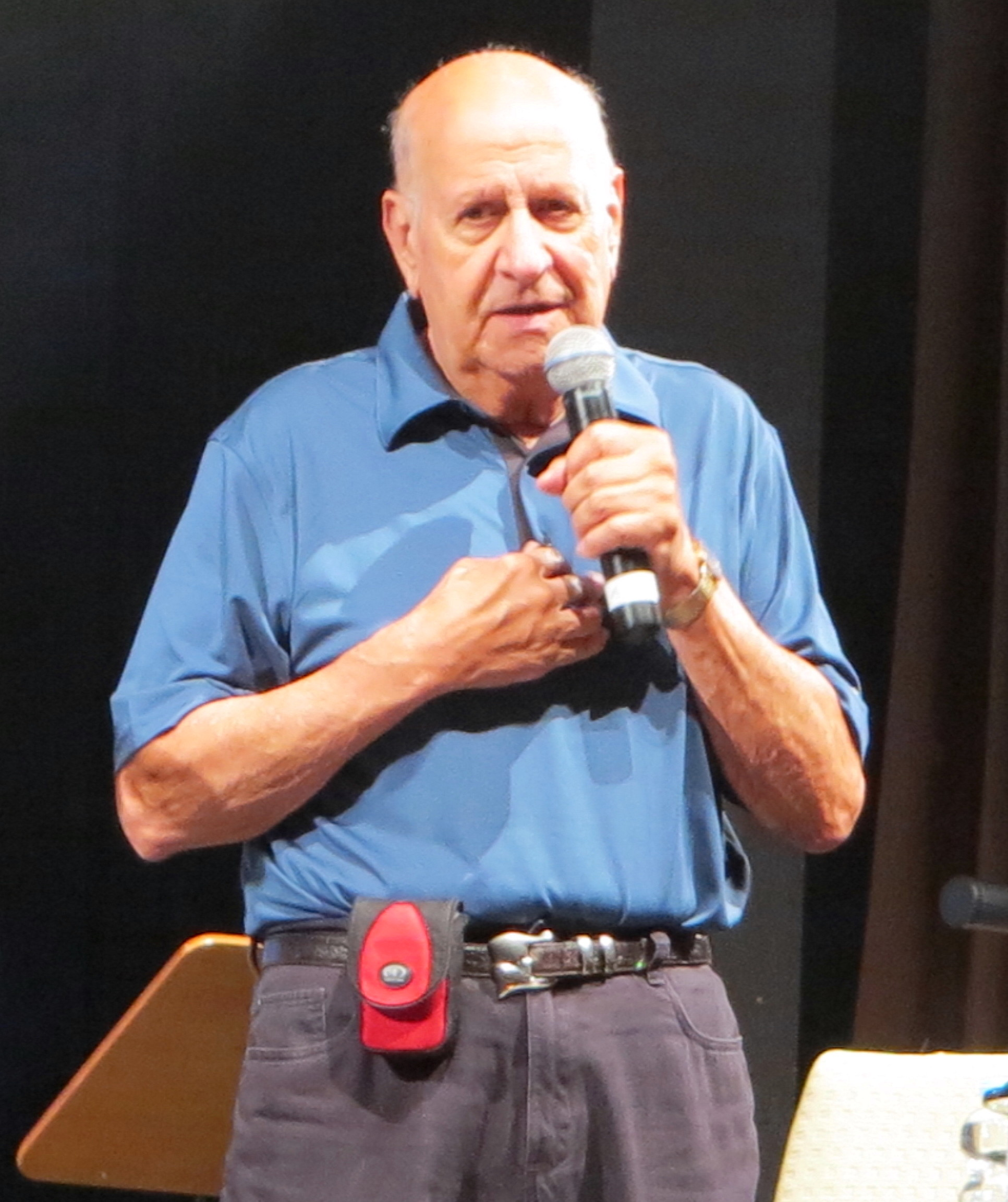 Joe Esposito 2013 on stage at the 12th European Elvis Festival in Bad Nauheim, Dolce Theatre.